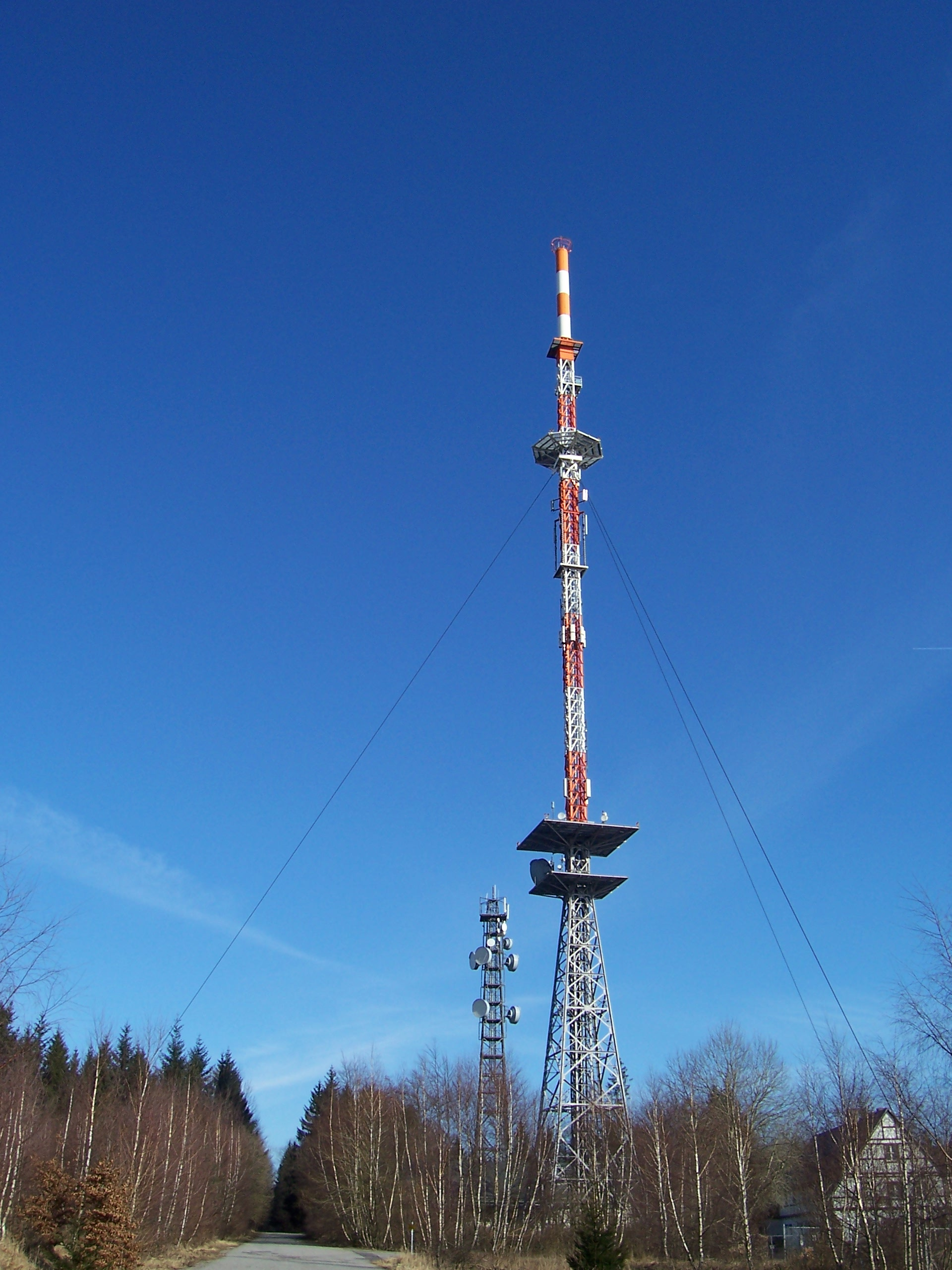 Geiersberg, Germany, 586 m